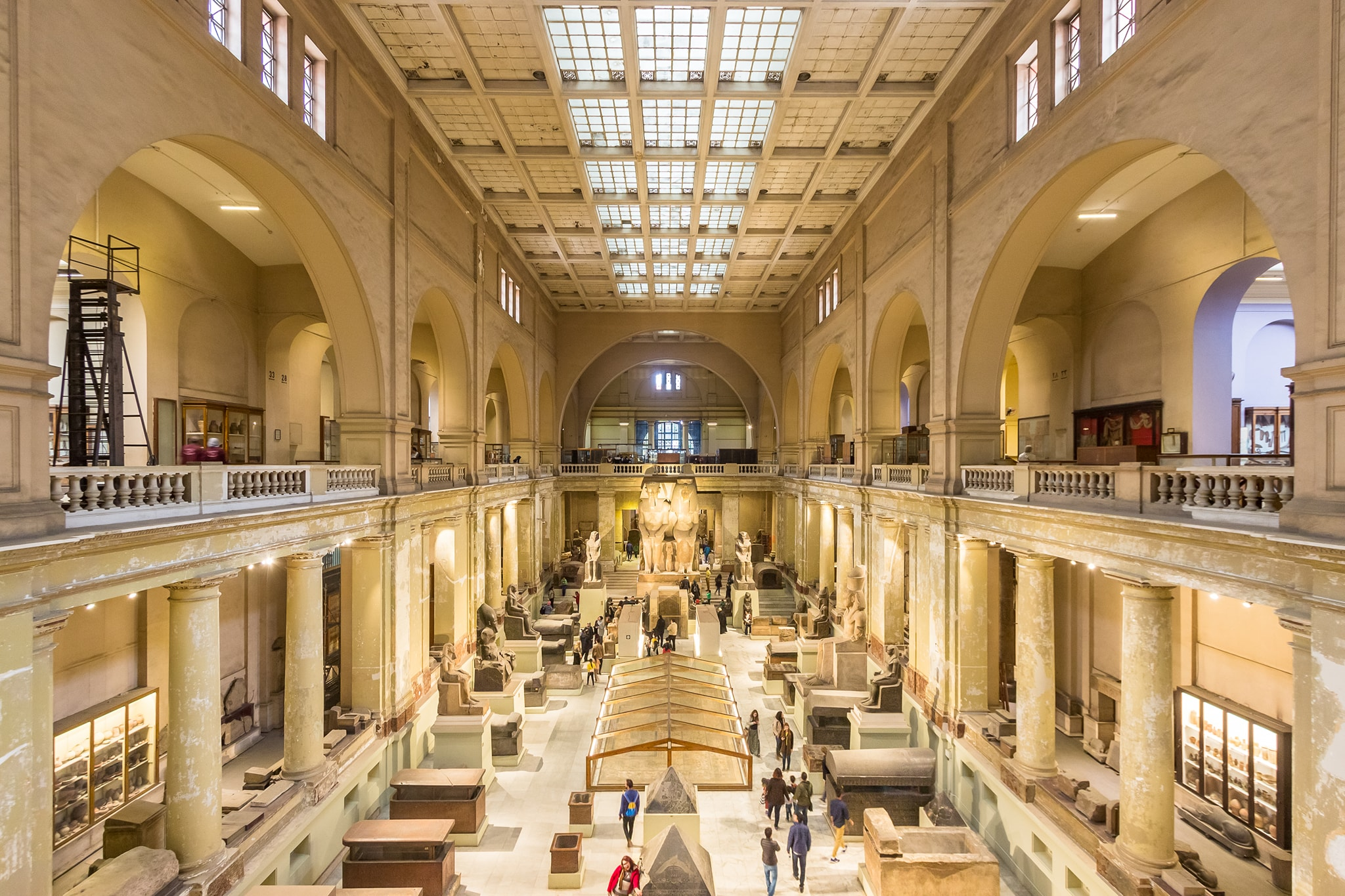 The Museum of Egyptian Antiquities, known commonly as the Egyptian Museum or Museum of Cairo, in Cairo, Egypt, is home to an extensive collection of ancient Egyptian antiquities. It has 120,000 items, with a representative amount on display, the remainder in storerooms. Built in 1901 by the Italian construction company Garozzo-Zaffarani, the edifice is one of the largest museums in the region. As of July 2017, the museum is open to the public. This is an image with the theme "Play" from: Egypt